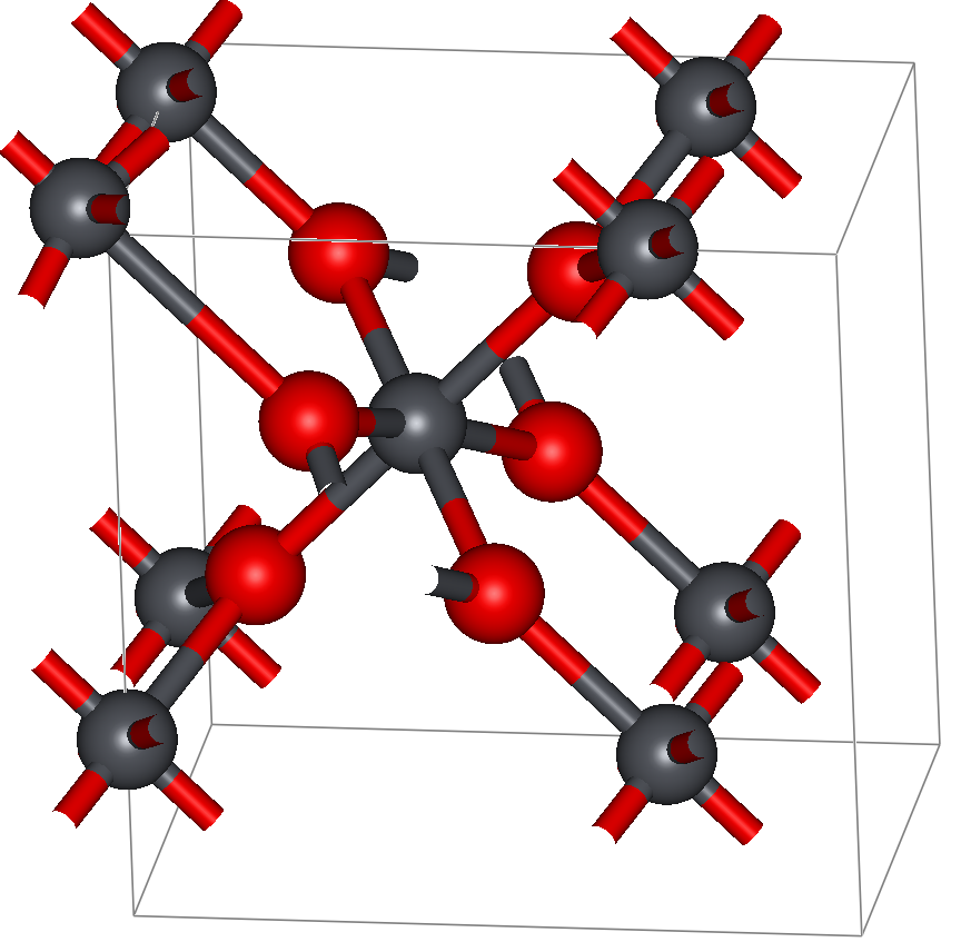 Crystal structure of plattnerite (PbO2). Red atoms are oxygens. W. H. Baur and A. A. Khan (1971). "Rutile-type compounds. IV. SiO2, GeO2 and a comparison with other rutile-type structures". Acta Cryst. B27: 2133.